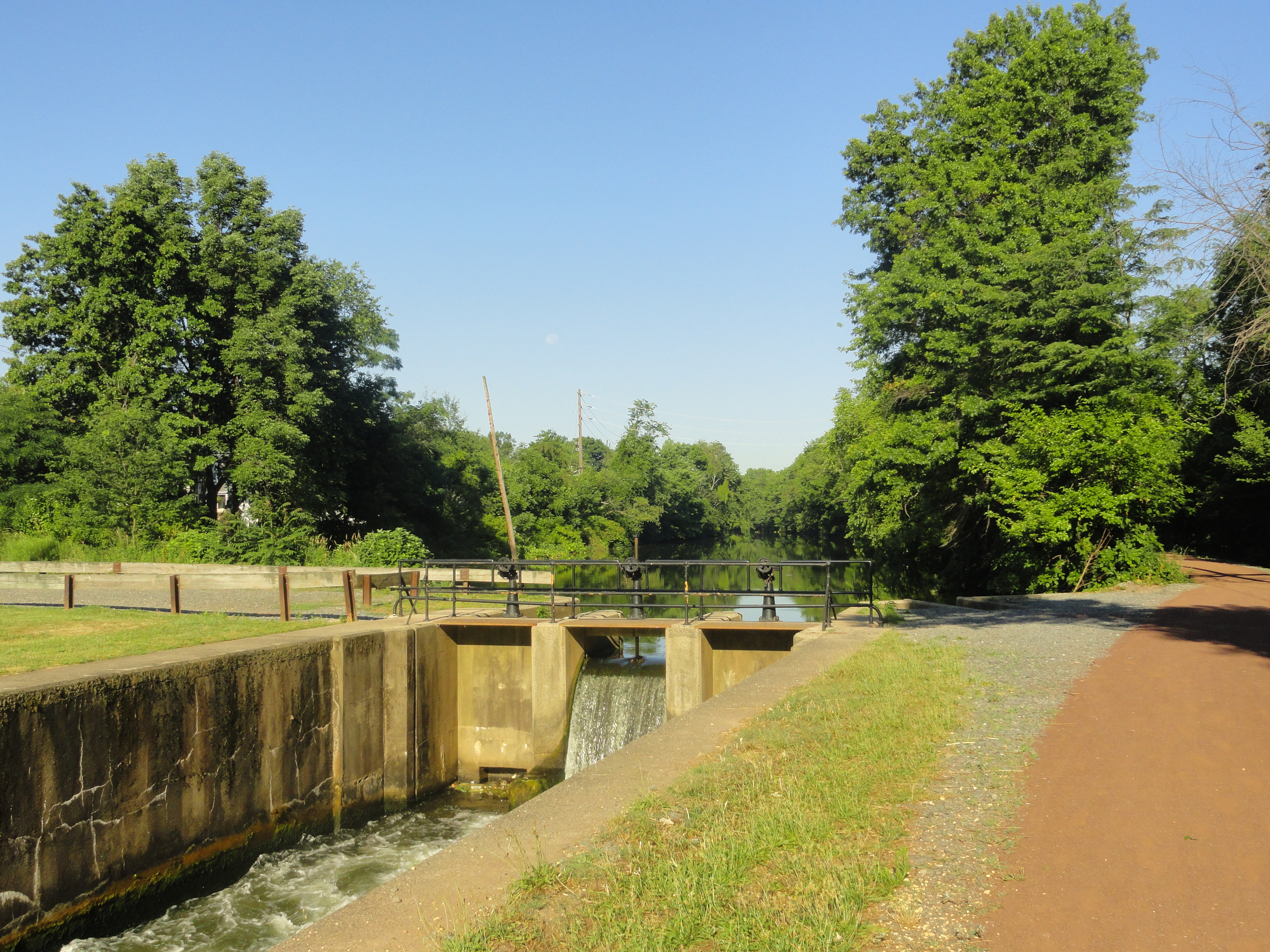 Deleware and Raritan Canal Lockes located in South Bound Brook NJ, USA July 2012